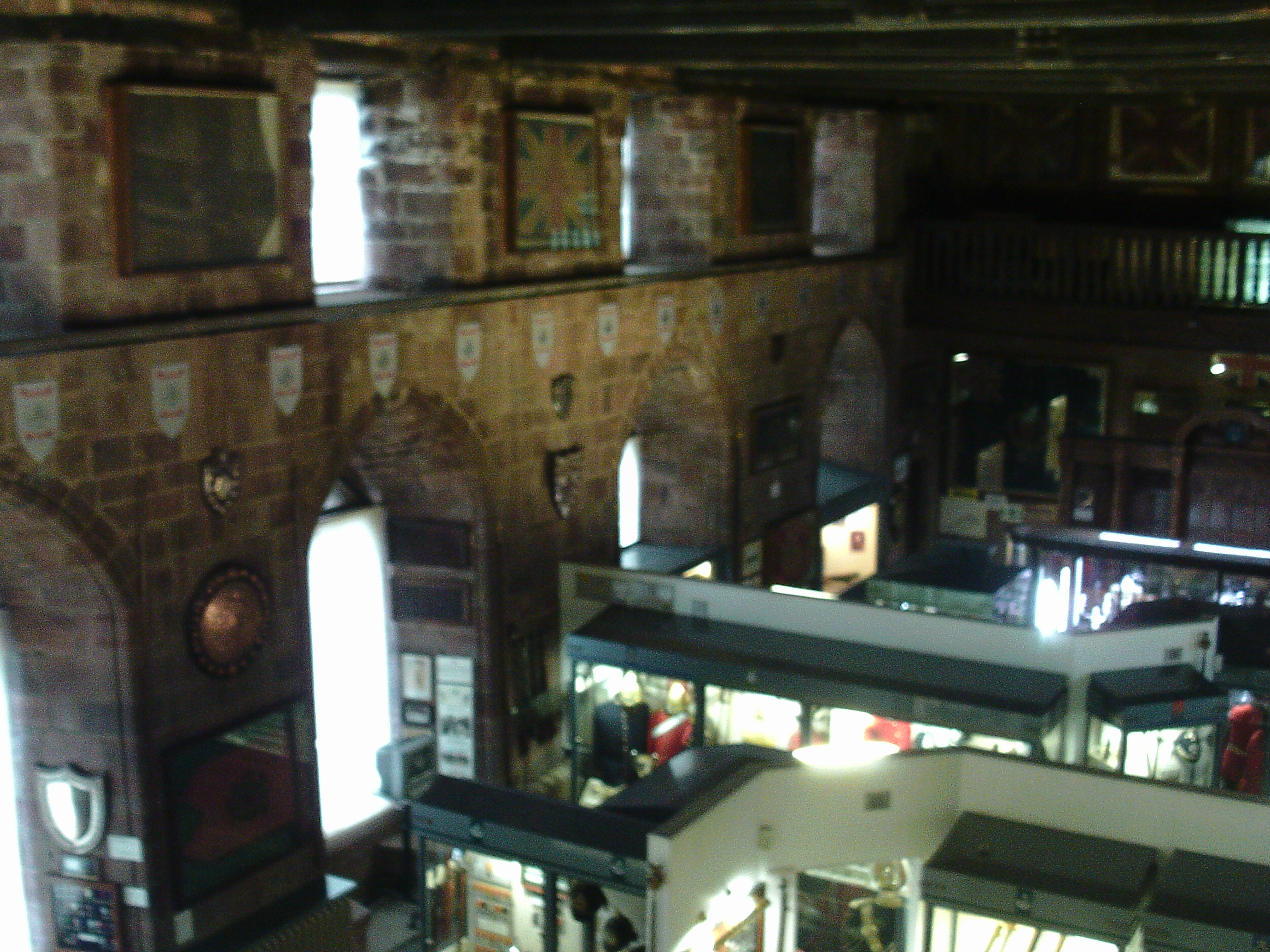 The Great Hall of Shrewsbury Castle, Shropshire, now the Shropshire Regimental Museum